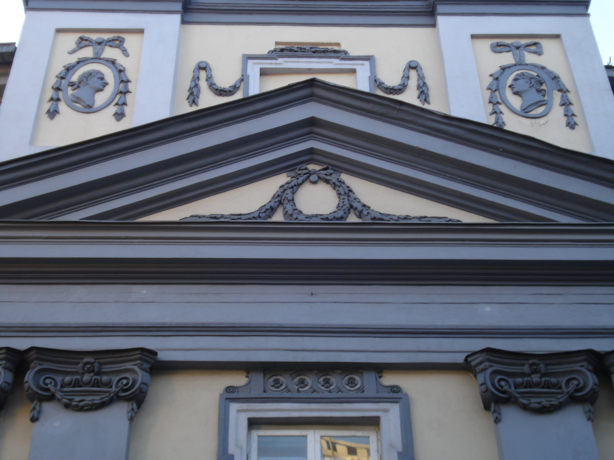 The pediment of the palace of Gurecki family in Vilnius. Entrance. Dominikonų g. 15